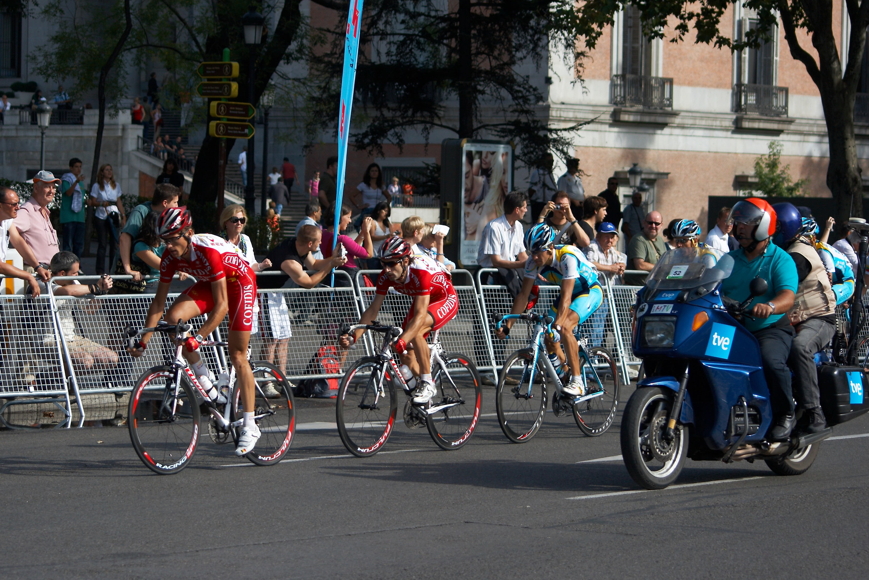 DE WEERT Kevin (62/BEL), FERNANDEZ BUSTINZA Bingen (64/ESP) and RUBIERA VIGIL José Luis (38/ESP), 2008 Vuelta a España, Madrid, Spain.